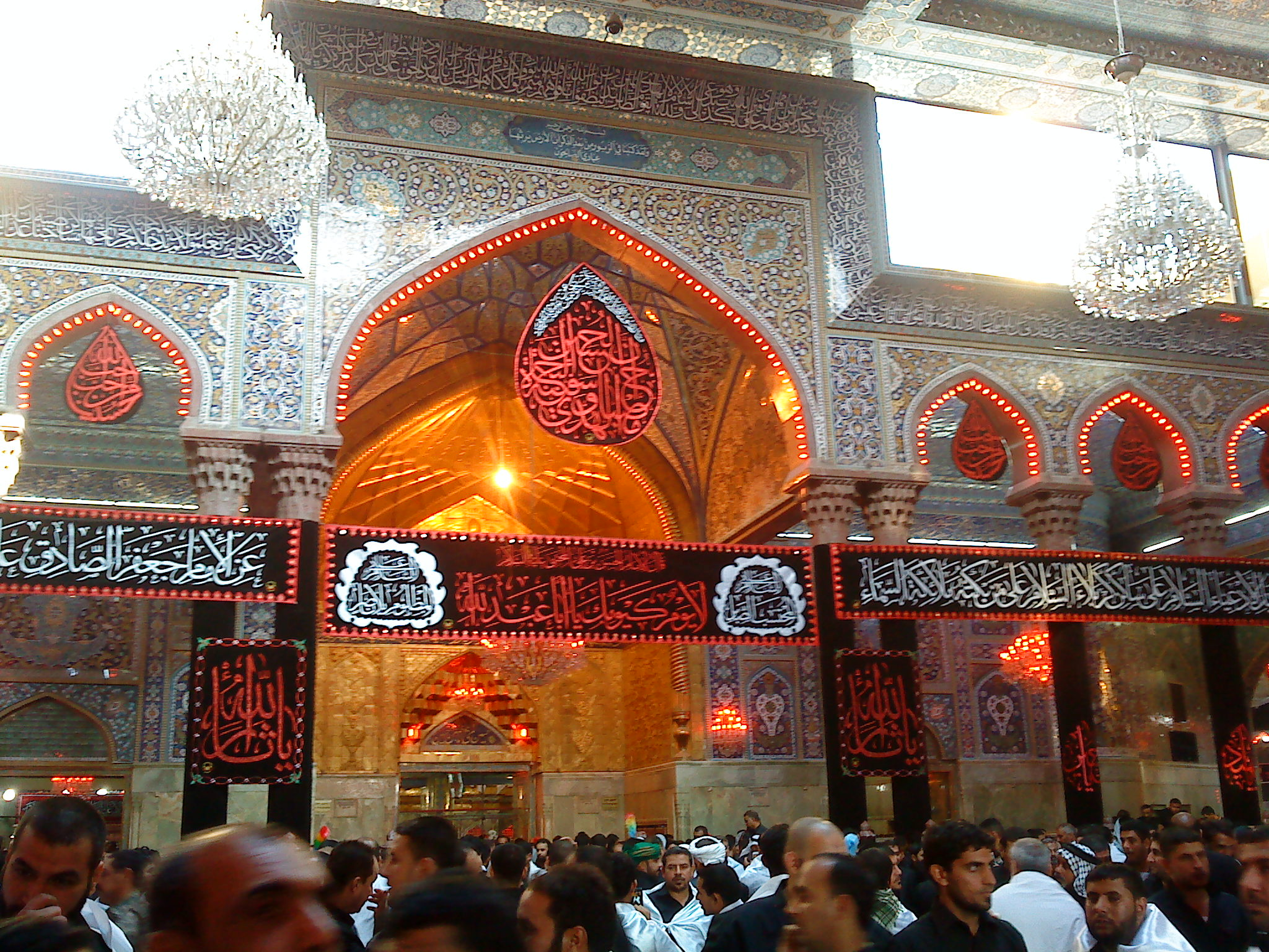 Entry gate Roza Imam Husain,Karbala